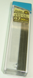 Pencil lead for a mechanical pencil. The mass of the package is 7.19 grams while the mass of all the graphite stored within it totals 1.23 grams.